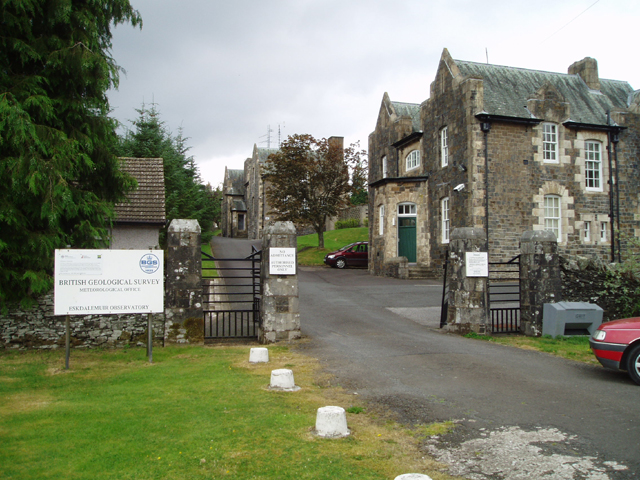 Eskdalemuir Observatory. This Observatory was founded here in 1908 and is operated by The British Geological Survey and The Met. Office. The centre is involved in monitoring changes in the United Kingdom's natural geomagnetic field and is also involved in earthquake detection and weather forecasting. The observatory is not opened to the public and this photograph was taken from just outside the entrance.